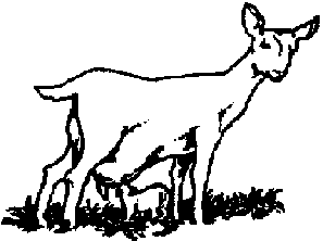 Standard Event System character depiction